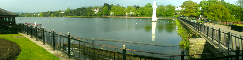 BillySastard, Own Image,Roath Park, Cardiff